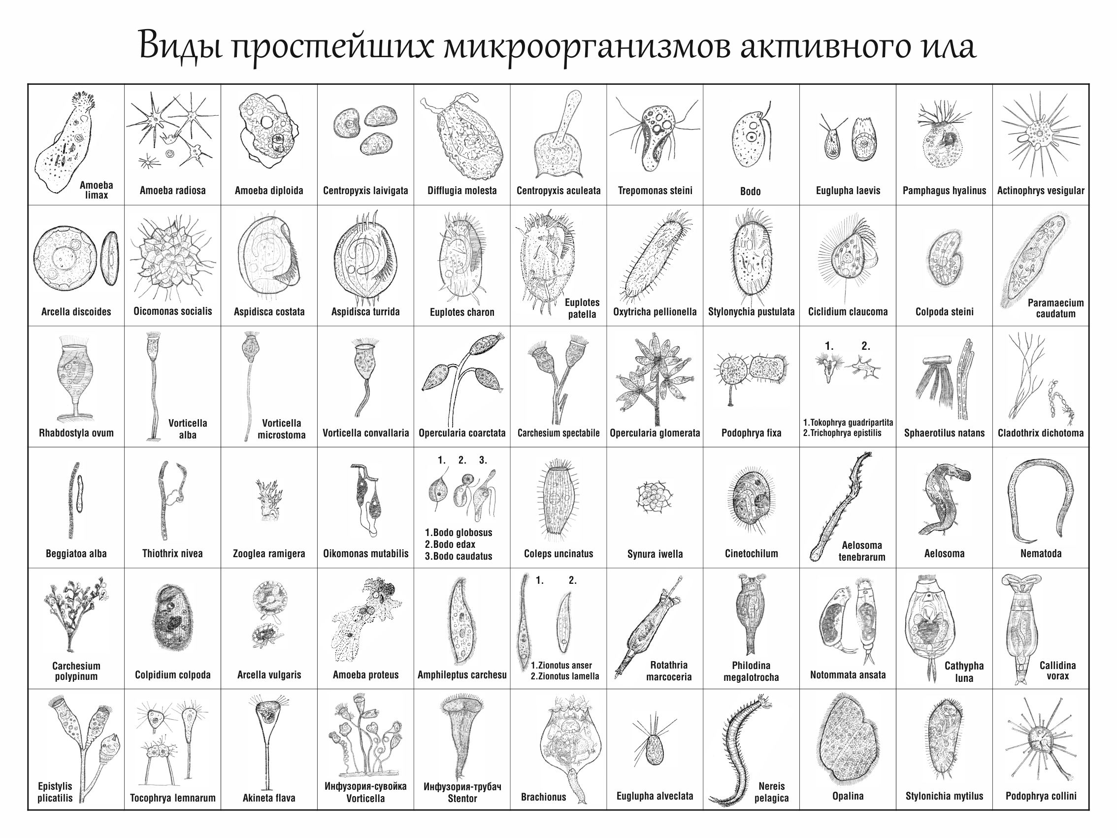 Simplest types of microorganisms of the activated sludge (Krivbassvodokanal)